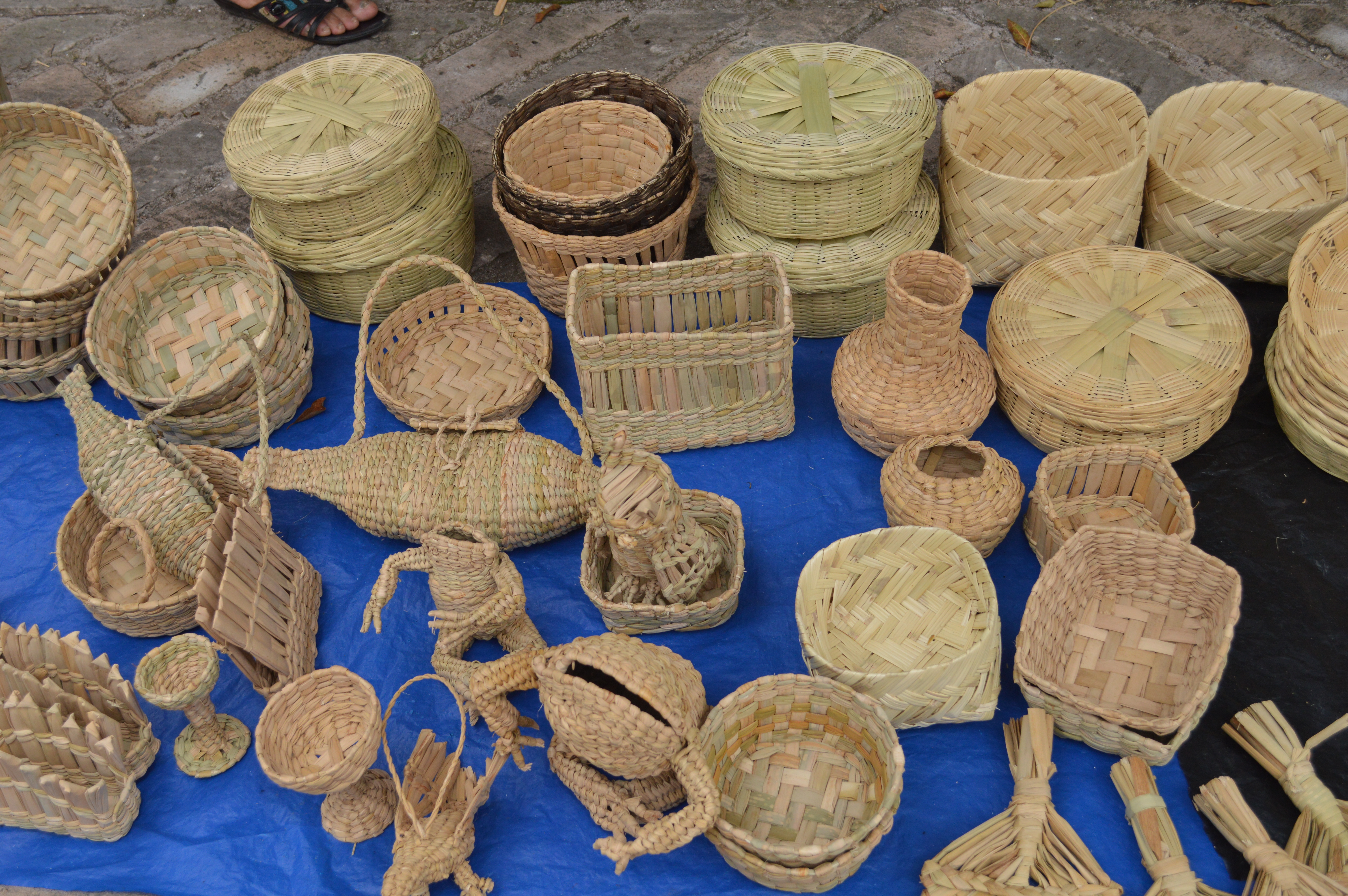 Basketry for sale in Cuitzeo, Michoacán, Mexico